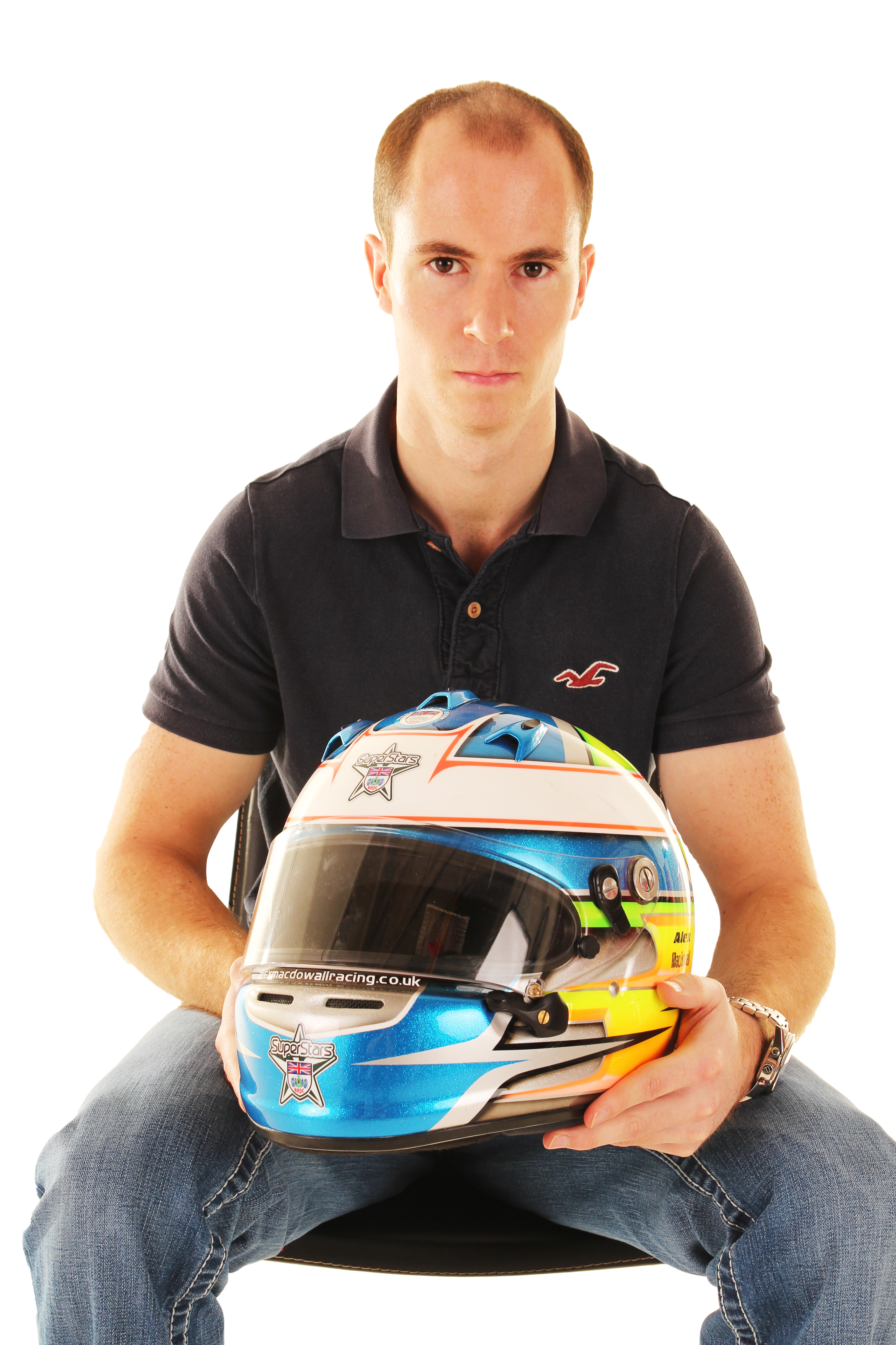 Alex MacDowall international racing driver, portfolio shot taken 2014